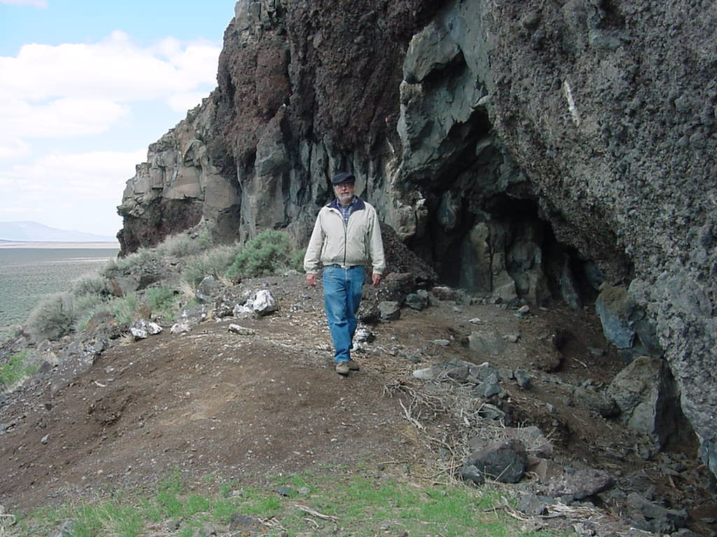 Paisley Caves, above the Summer lake plain, Oregon. In these caves some of the oldest human remains in North America were found. Bill Cannon, archaeologist of the BLM Lakeview, district in the center.